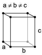 Orthorhombic crystal structure